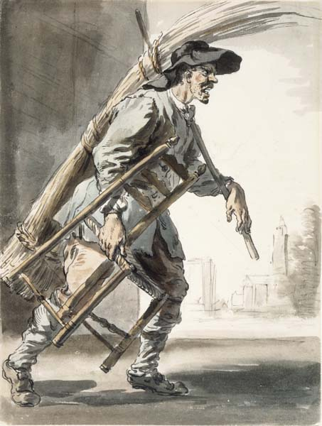 00 94.tif